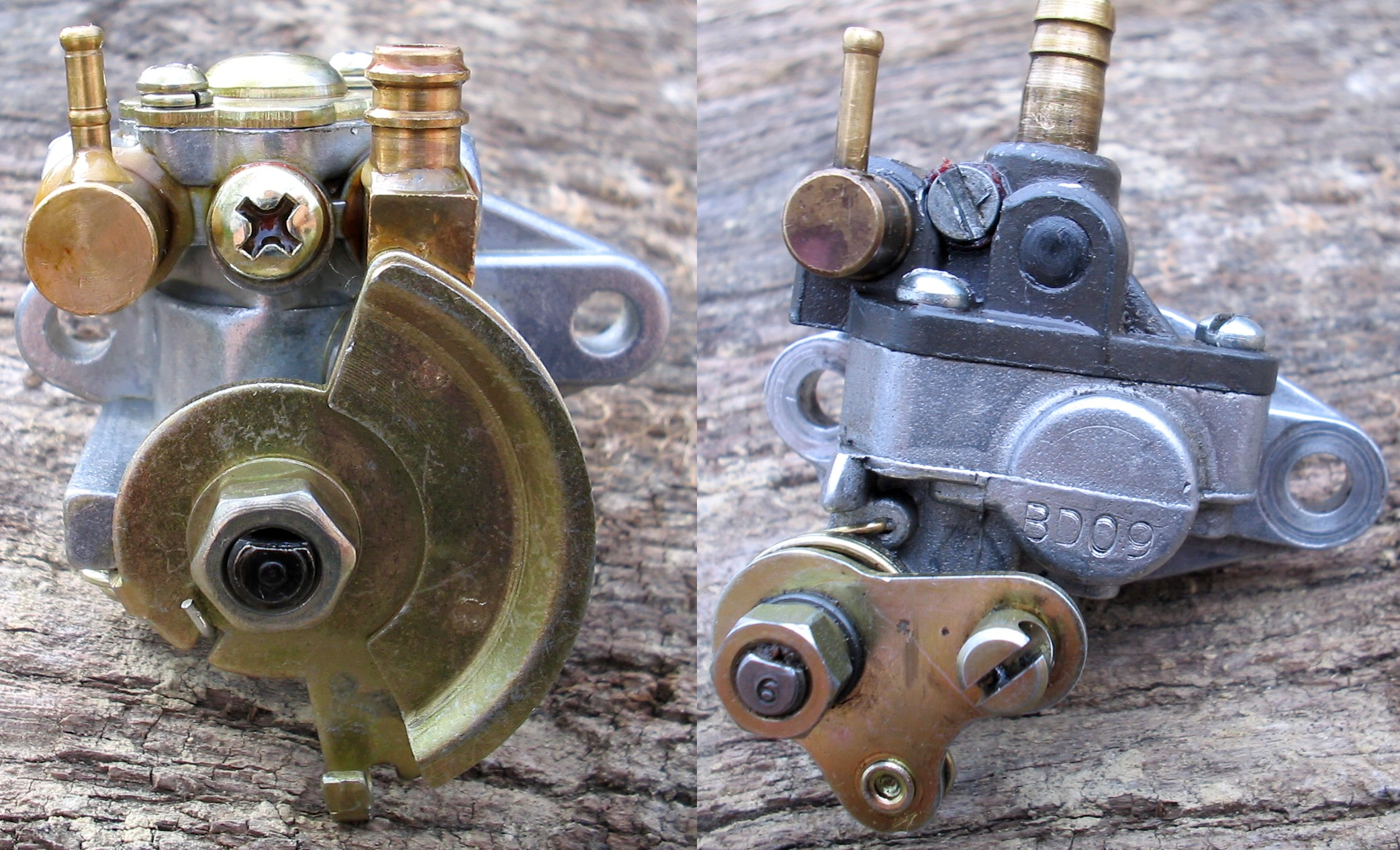 Two mixers oil for two-stroke (Minarelli AM) is controlled by engine speed engines both from the accelerator, you can see the constructional differences and the different piloting system of the accelerator (pulley lever to the left to the right)